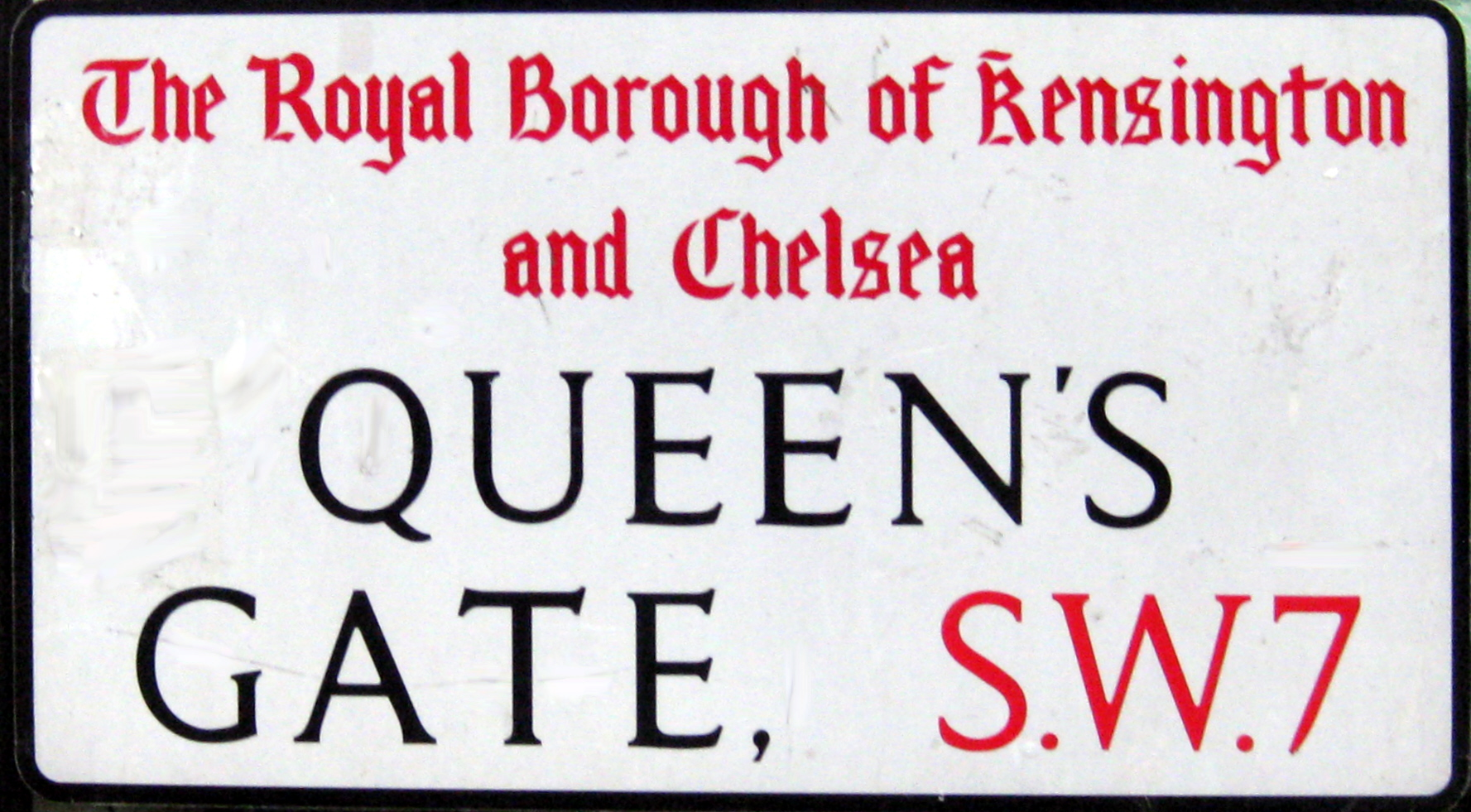 Queen's Gate street sign, London SW7